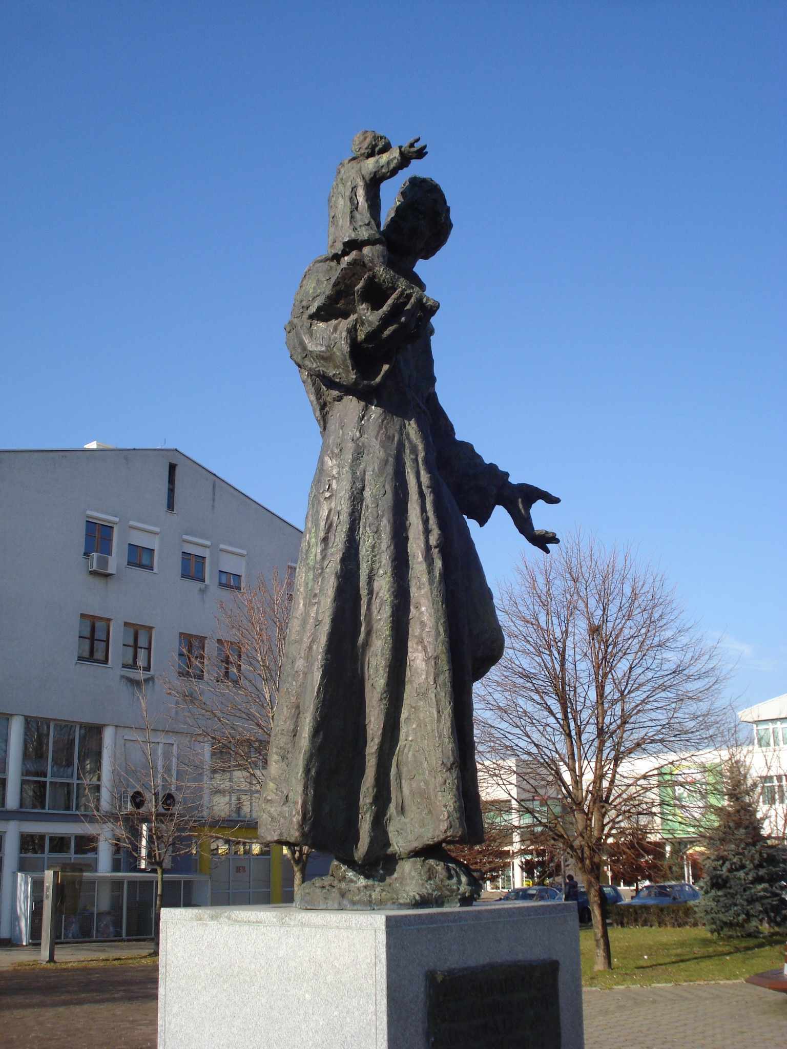 Saint Anthony of Padova - statue in Čakovec, Croatia (south view)